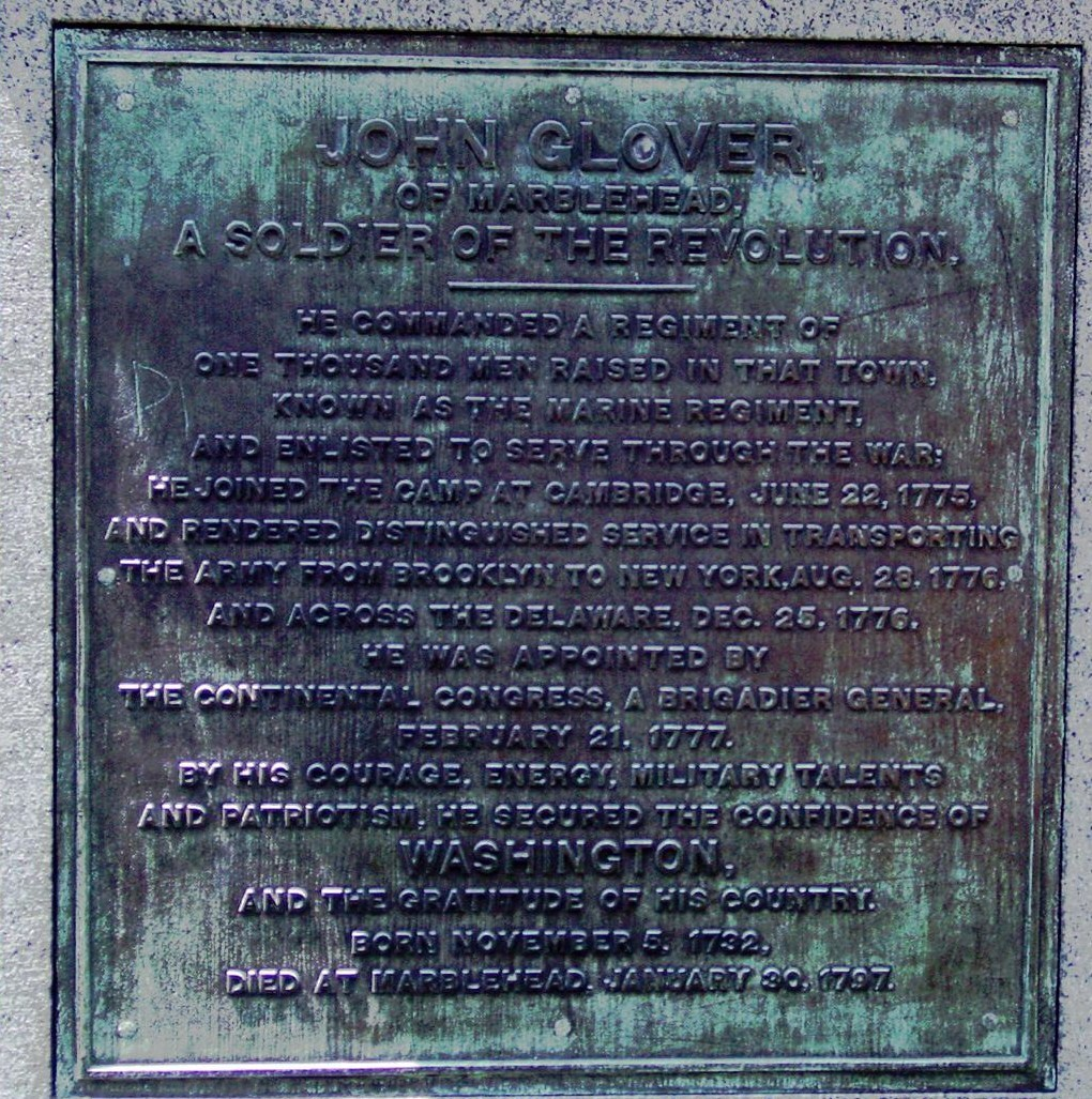 Inscription from the Statue Of General John Glover Commonwealth Avenue Boston